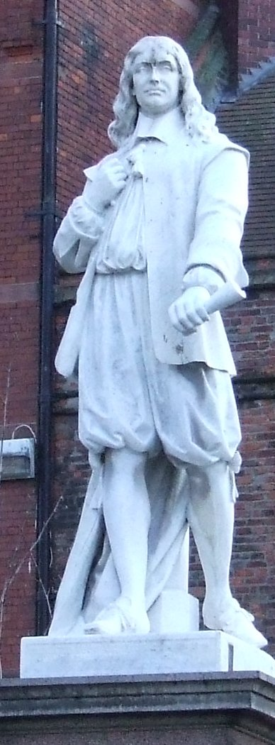 A statue of the poet Andrew Marvell, located in King Street, Hull, UK. The text below (not shown) reads "The poet, Andrew Marvell. An incorruptible patriot, a wise statesman and a zealous and energetic representitive of this his native town in parliament from 1659 to 1678. Born 1621, died 1678."